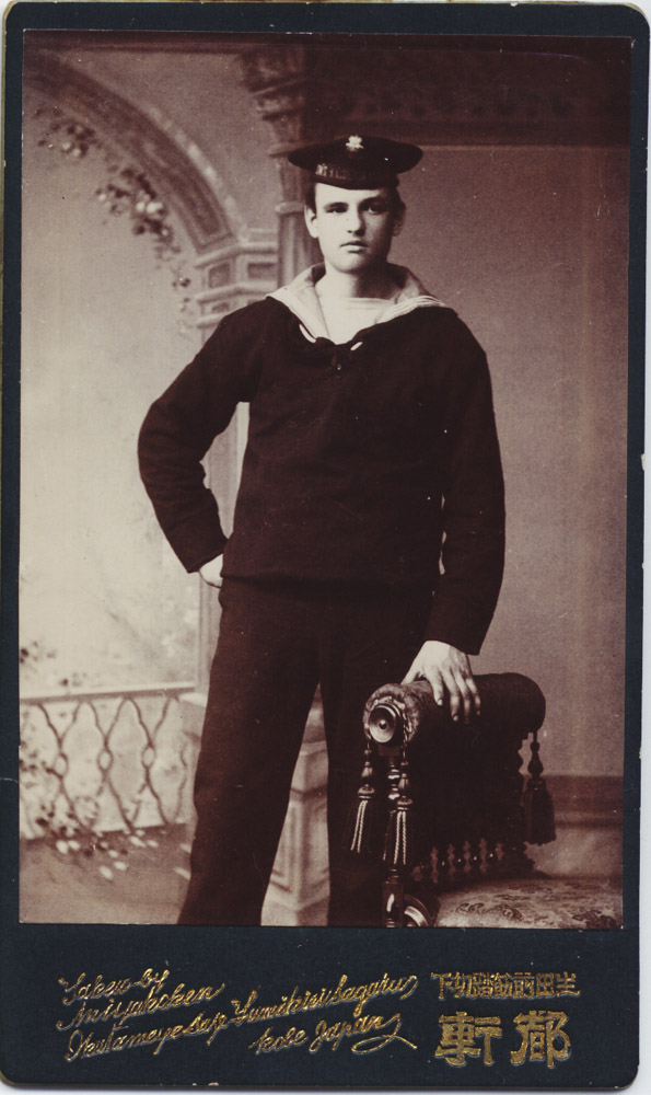 Unknown Austrian Sailor, probably of Czech origin from Kaserin Elisabeth for the moment stationned in Kobe, Japan.